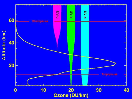 Levels of ozone at various altitudes, and related blocking of several types of ultraviolet radiation. The ozone concentrations shown are very small, typically only a few molecules O3 per million molecules of air. But these ozone molecules are vitally important to life because they absorb the biologically harmful ultraviolet radiation from the Sun. There are three different types of ultraviolet (UV) radiation, based on the wavelength of the radiation. These are referred to as UV-a, UV-b, and UV-c. The figure also shows how far into the atmosphere each of these three types of UV radiation penetrates. We see that UV-c (red) is entirely screened out by ozone around 35 km altitude. On the other hand, we see that most UV-a (blue) reaches the surface, but it is not as genetically damaging, so we don't worry about it too much. It is the UV-b (green) radiation that can cause sunburn and that can also cause genetic damage, resulting in things like skin cancer, if exposure to it is prolonged. Ozone screens out most UV-b, but some reaches the surface. Were the ozone layer to decrease, more UV-b radiation would reach the surface, causing increased genetic damage to living things.